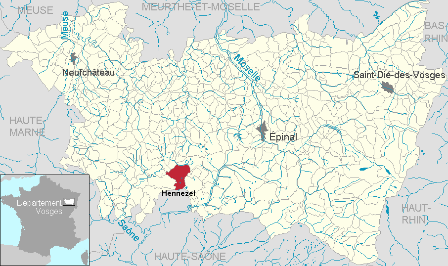 Hennezel in the department of Vosges, Lorraine, France